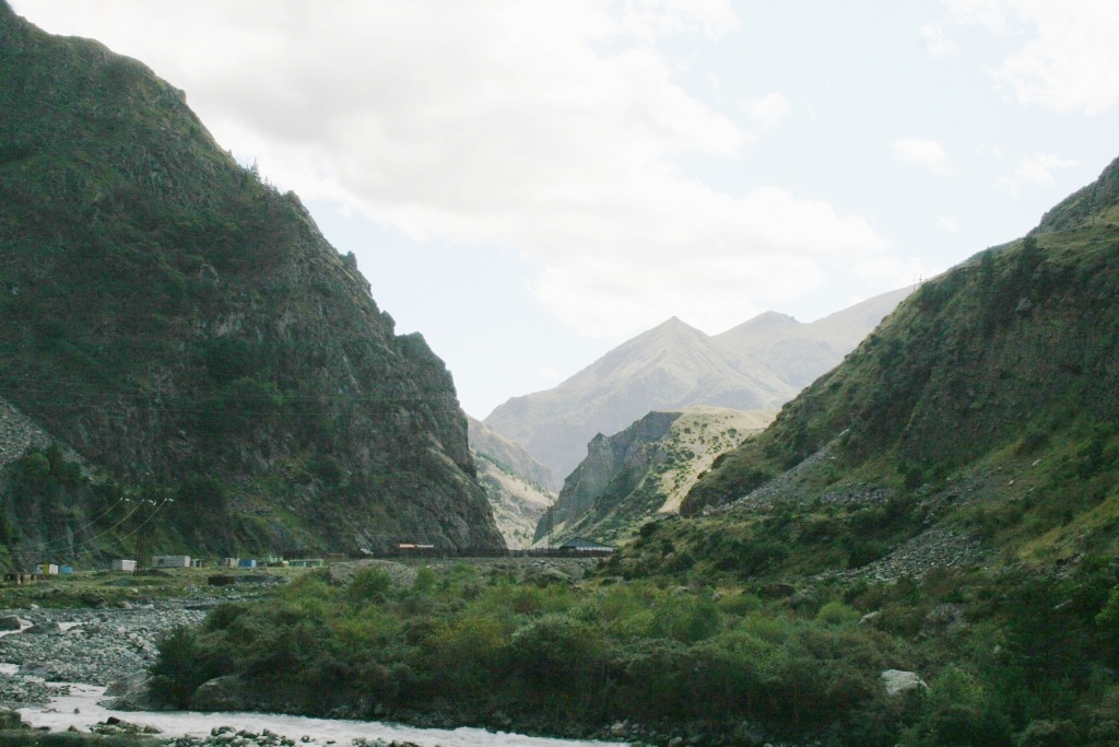 Dariali Gorge in Georgia at the border with Russia